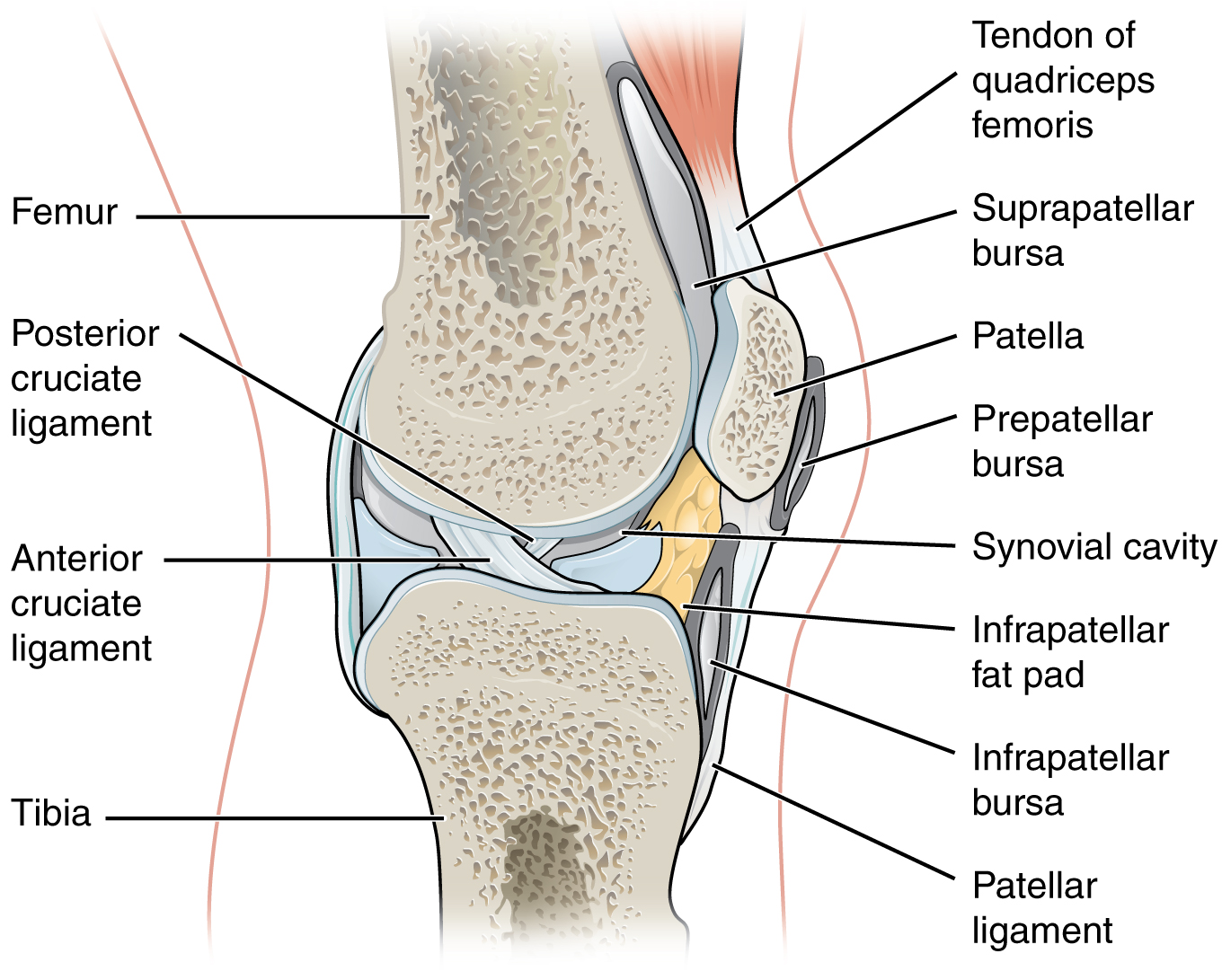 Illustration from Anatomy & Physiology, Connexions Web site. Jun 19, 2013.